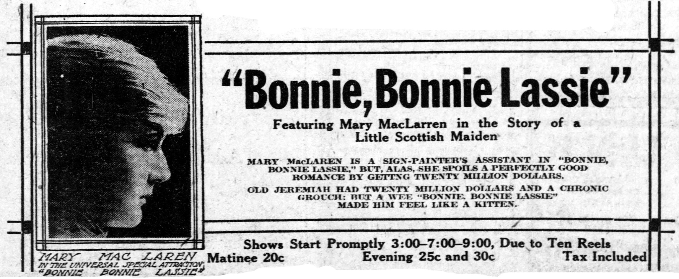 Bonnie Bonnie Lassie is a 1919 American comedy film directed by Tod Browning. This is a newspaper advert for the film.